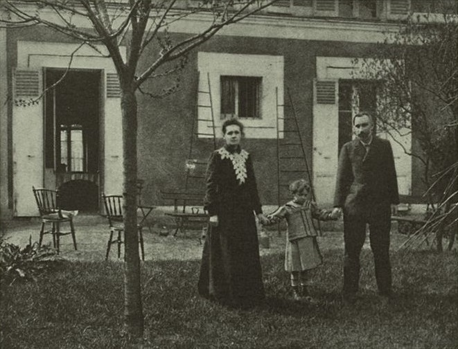 Pierre and Marie Curie with their duaghter Irene in the garden of the house on Boulevard Kellerman, 1908.